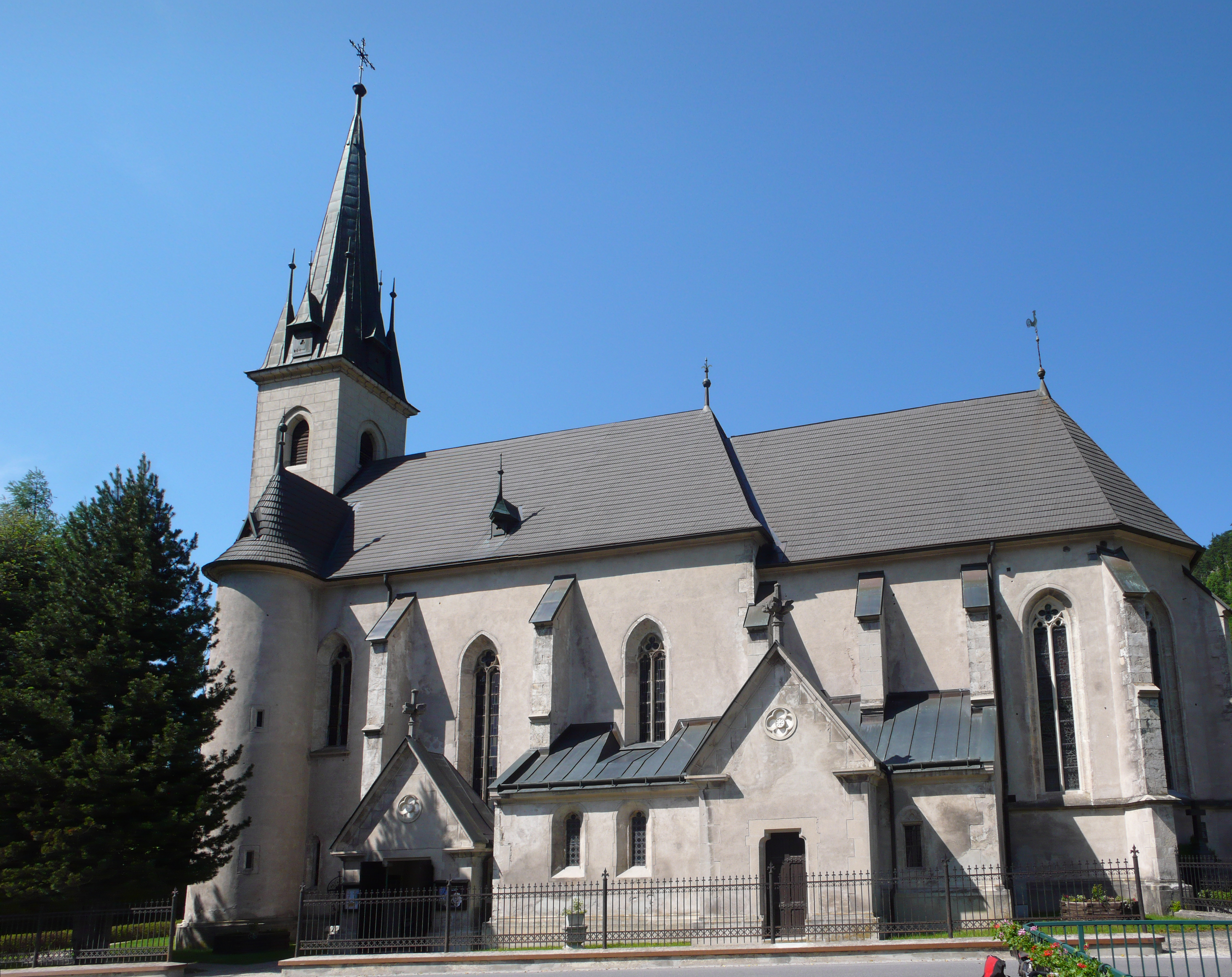 Catholic parish church and cemetery in Ramsau near Hainfeld, Lower Austria.